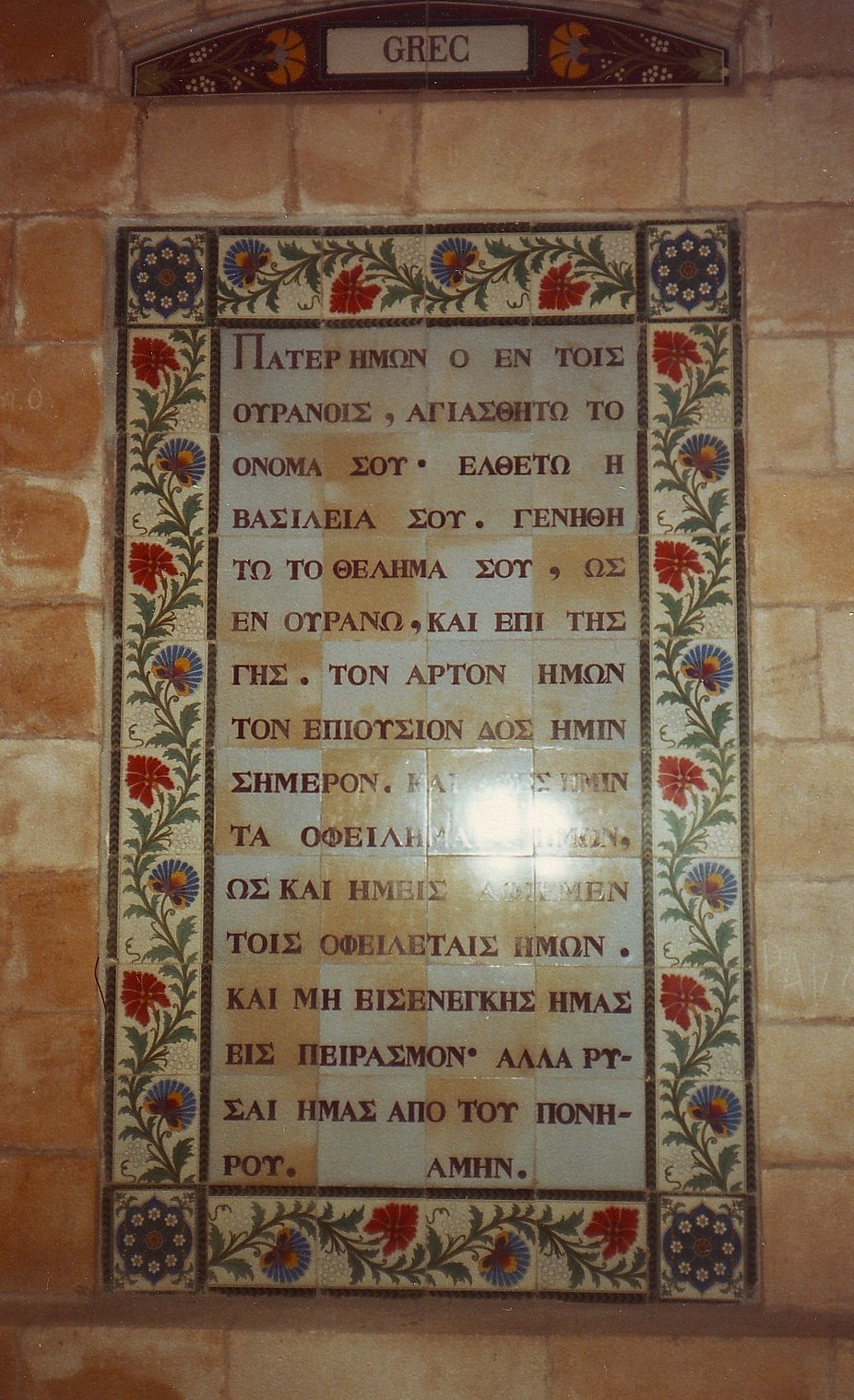 Lord's Prayer in greek in the Pater Noster Chapel in Jerusalem